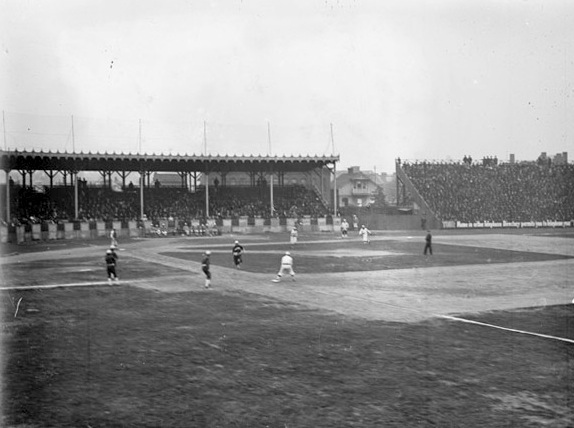 "View of an unidentified baseball player, of the American League's Chicago White Sox, running to first base from home plate and unidentified baseball players, of the American League's St. Louis Browns, playing defense and standing in position on the field at an American League ballpark in St. Louis, Missouri, during a baseball game between the White Sox and Browns. Crowds are sitting in grandstands and bleachers in the background."